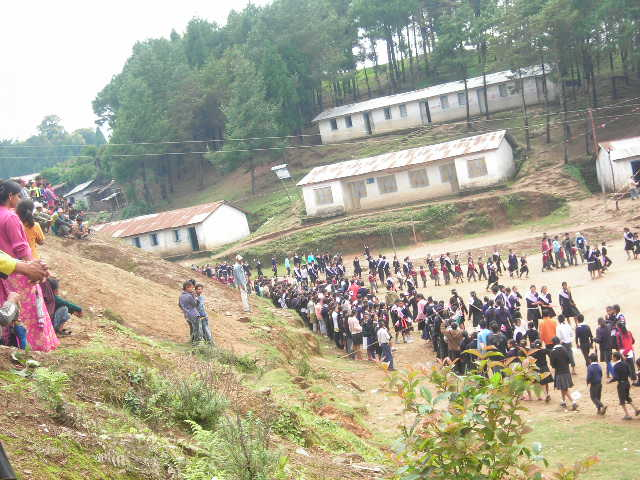 Amar Kalyan High School, During the visit of ambassador of Japan